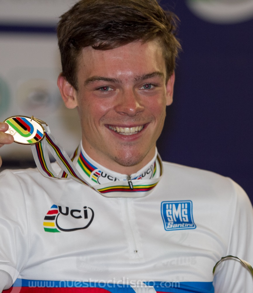 Men's Individual PursuitOro: EDMONDSON Alexander AUS.Plata: KUENG Stefan SUI.Bronce: RYAN Marc NZL.Campeonato Mundial de Pista Cali 2014Jueves 27 de febreroGalería de imágenes patrocinadas por Safetti